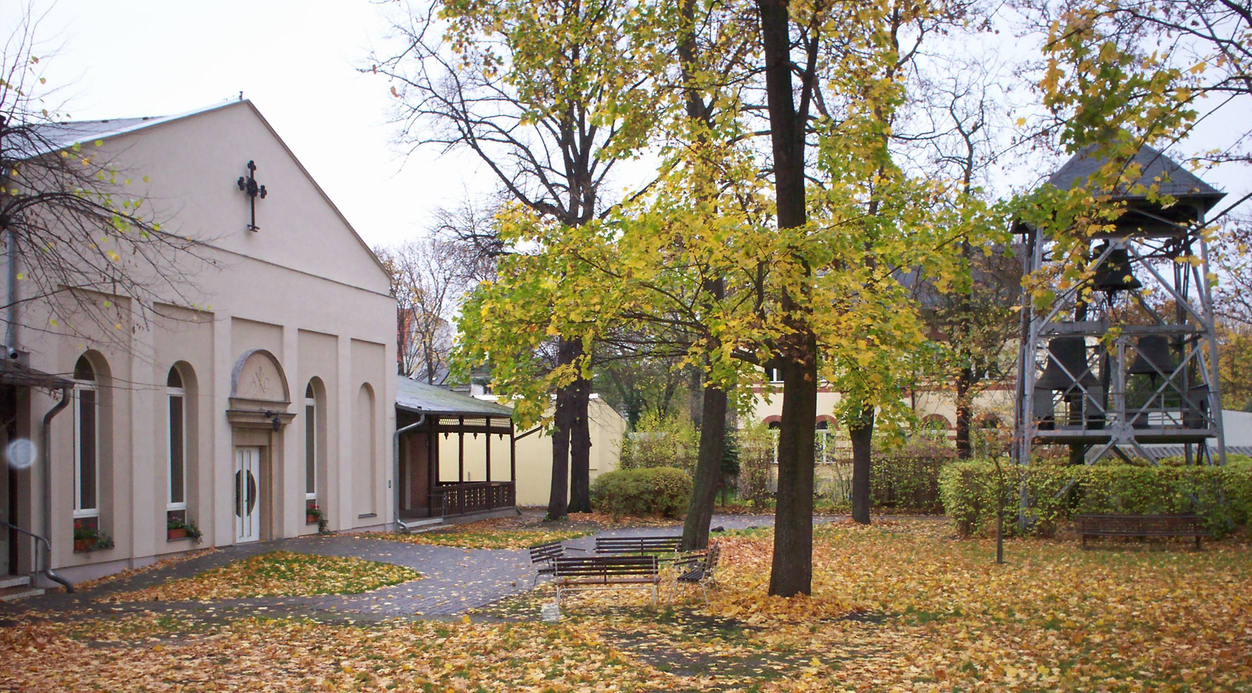 The Johannisthal Church in Johannisthal, Berlin